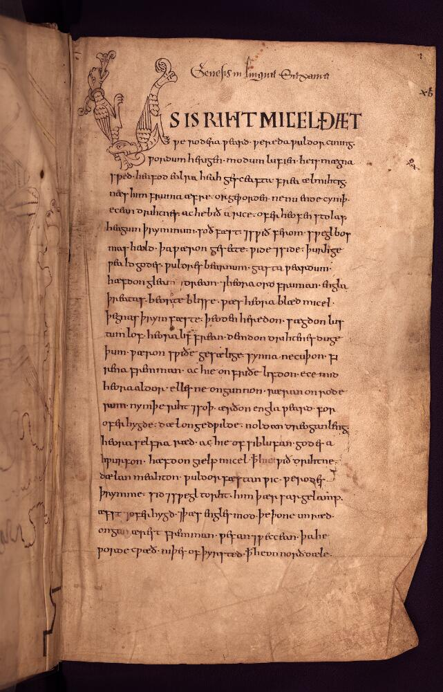 'The Cædmon Manuscript': parts of Genesis, Exodus and Daniel in Old English verse, illustrated with Anglo-Saxon drawings, c. A.D. 1000.; 1